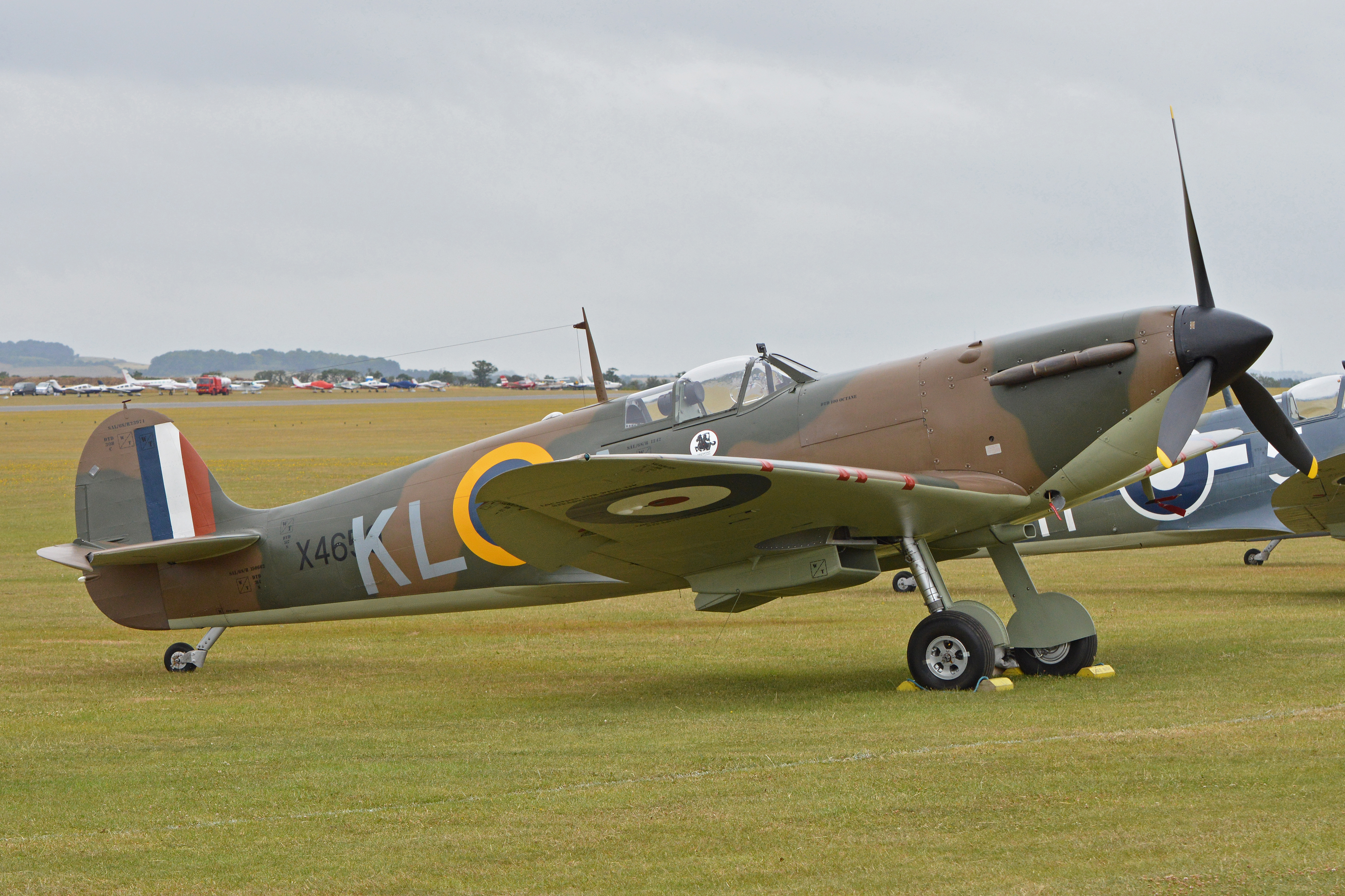 c/n 6S-75531. Wears genuine 54sqn markings. 2015 Flying Legends Airshow. Duxford, Cambridgeshire, UK. 12-7-2015 The following info is from the Flying Legends website:- “X4650’s first flight was at Eastleigh on the 23rd October 1940. She was issued to 24 M.U. Tern Hill, Shropshire, UK on the 25th October 1940 on charge with 54 Sqn. Catterick, Yorkshire. She was involved in a mid-air collision in December 1940 and struck off charge in June 1941. The wreckage was discovered on the banks of the river Lever in 1976. The remains were acquired by Peter Monk in 1995 and soon after restoration work on her was commenced. First post restoration flight was from Biggin Hill in March 2012.”